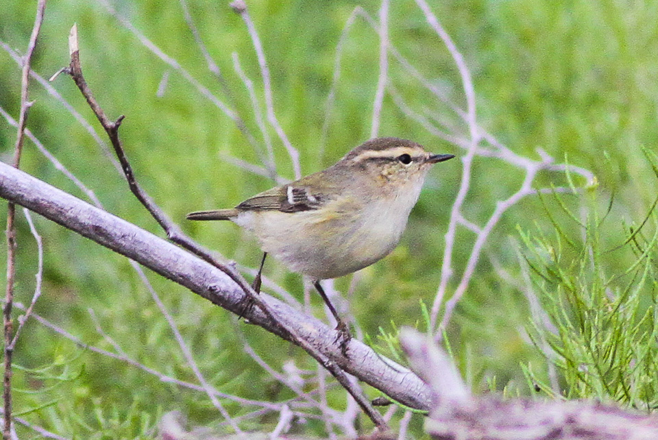 Hume's Leaf Warbler (Phylloscopus humei) Taukum Desert